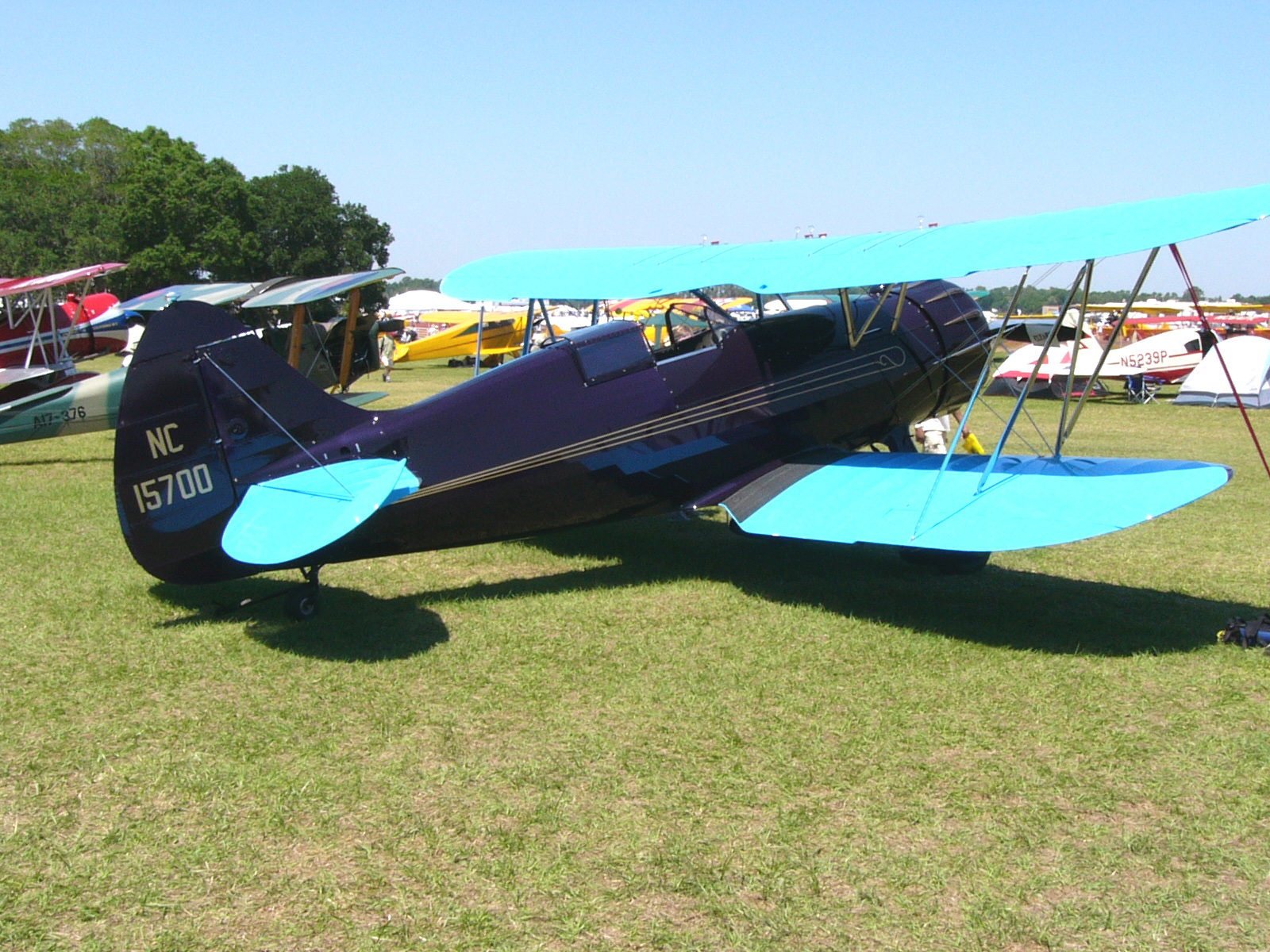 A Waco YPF taken at Sun 'n Fun 2006